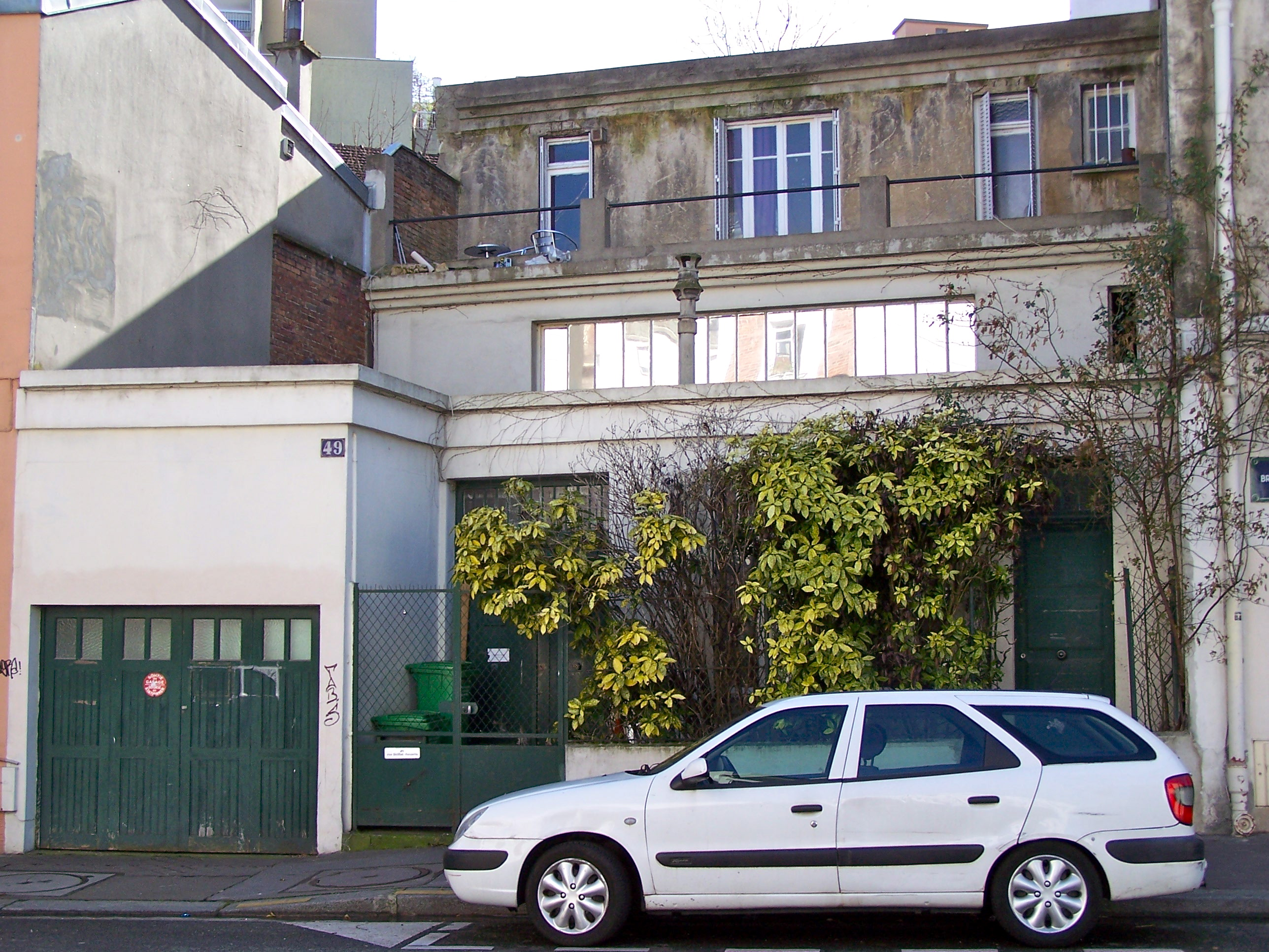 View of the 49, rue Brillat-Savarin in Paris, where was filmed Caché by Mickael Haneke